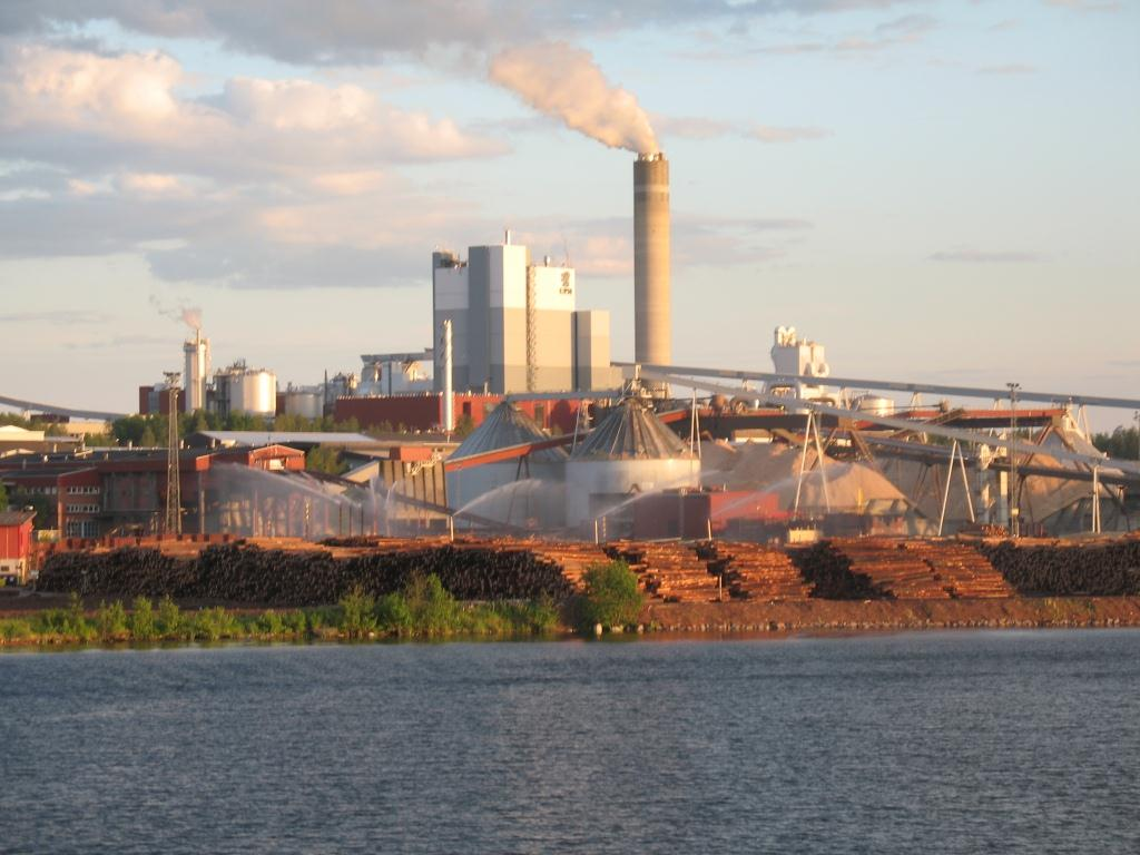 Pulp-and-paper factory at Lappeenranta, view from Saimaa lake